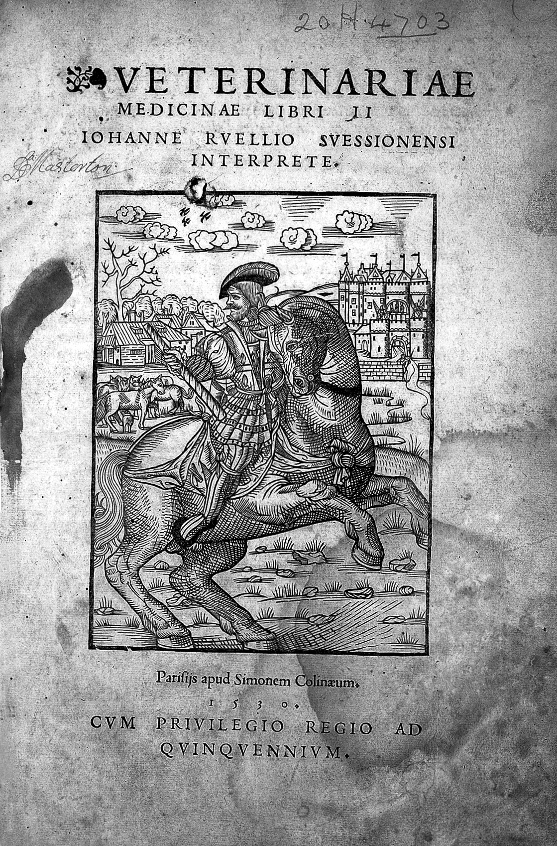 Title page with woodcut Rare Books Keywords: Veterinary Medicine; Johannes Ruellius